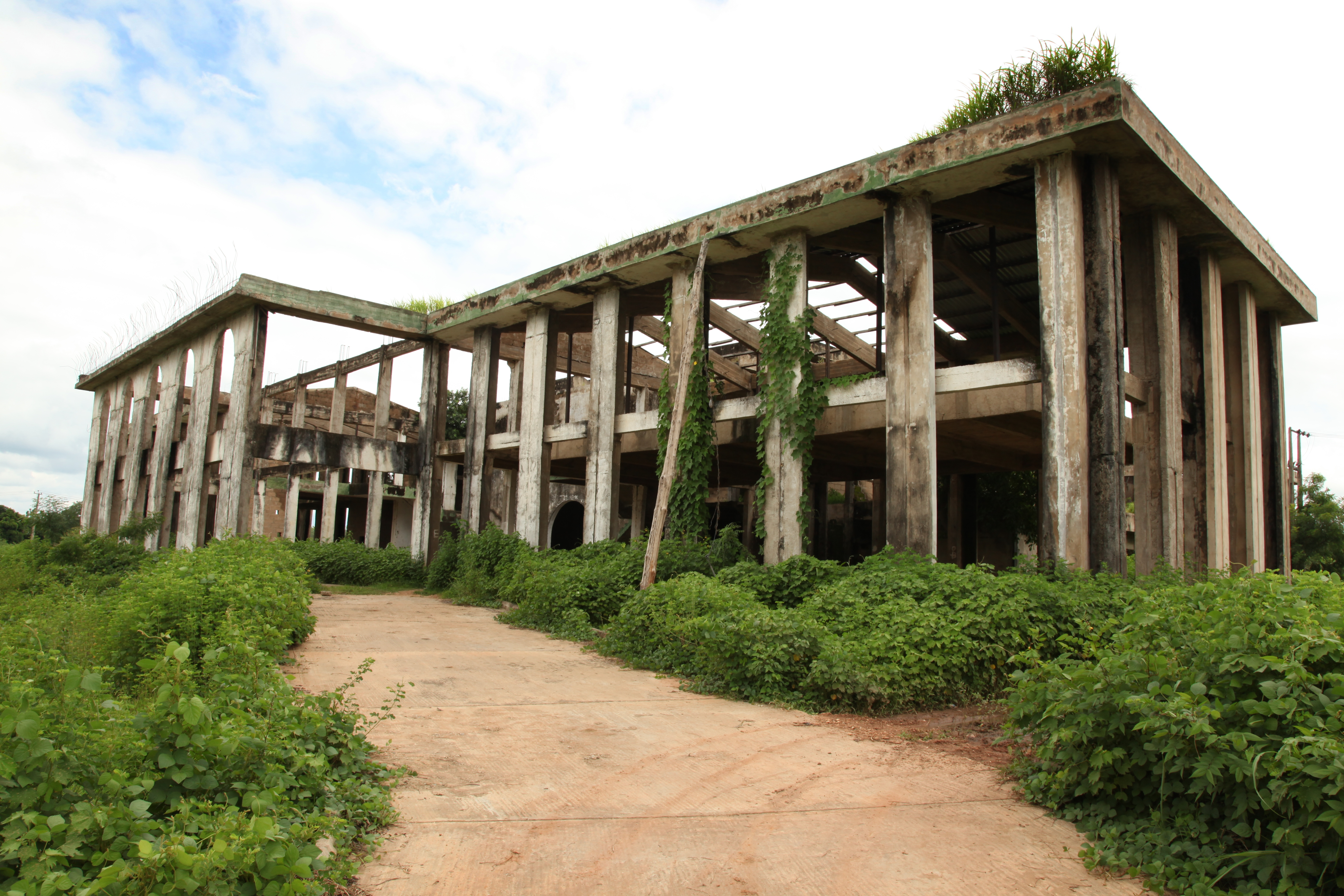 There was a visitor's centre planned at the site of Zik's birthplace, but the project was abandoned. What is left is a modern ruin. Zik's grave in Onitsha has suffered the same fate - an abandoned project and another modern ruin. Is this how to remember past heroes?